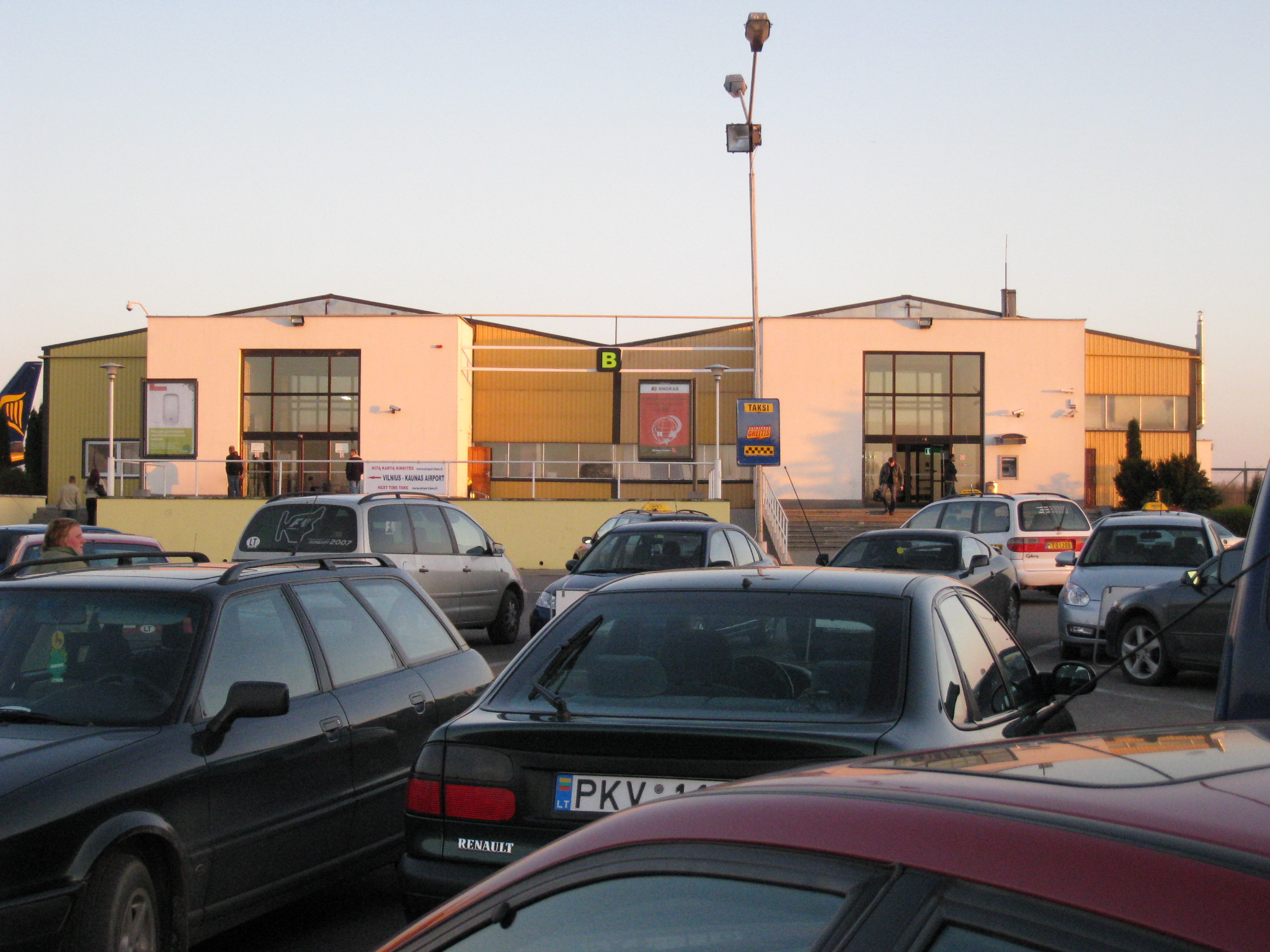 Kaunas Airport, Terminal B.